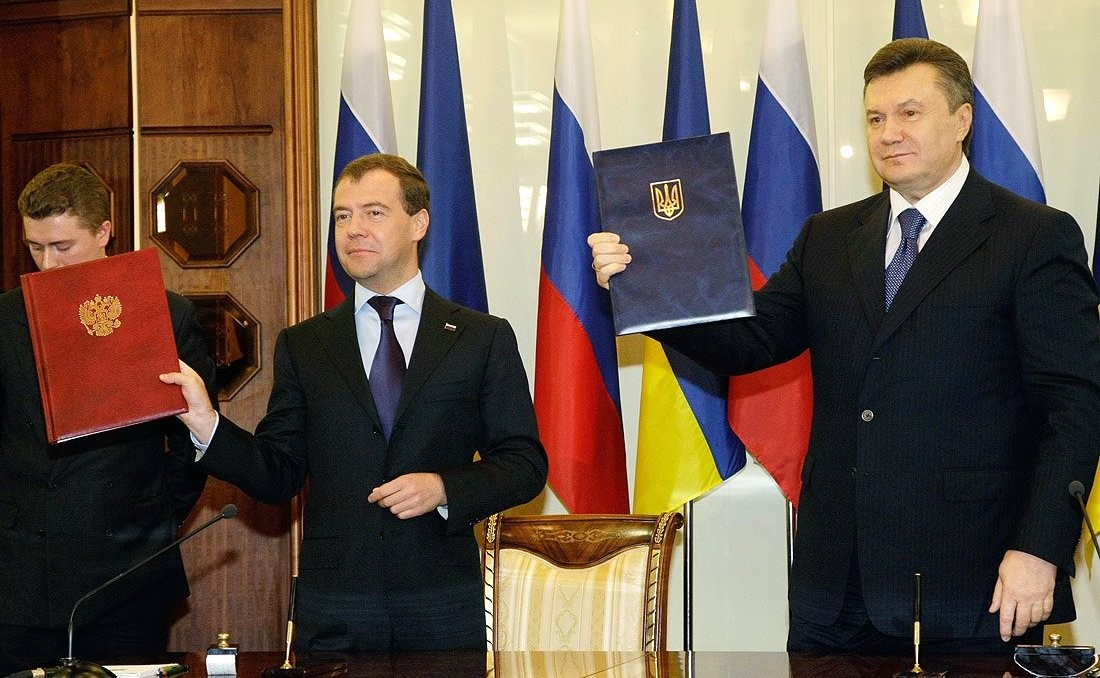 KHARKIV, UKRAINE. Signing of a Russian-Ukrainian agreement on the presence of Russia’s Black Sea Fleet on Ukrainian territory. With President of Ukraine Viktor Yanukovych.